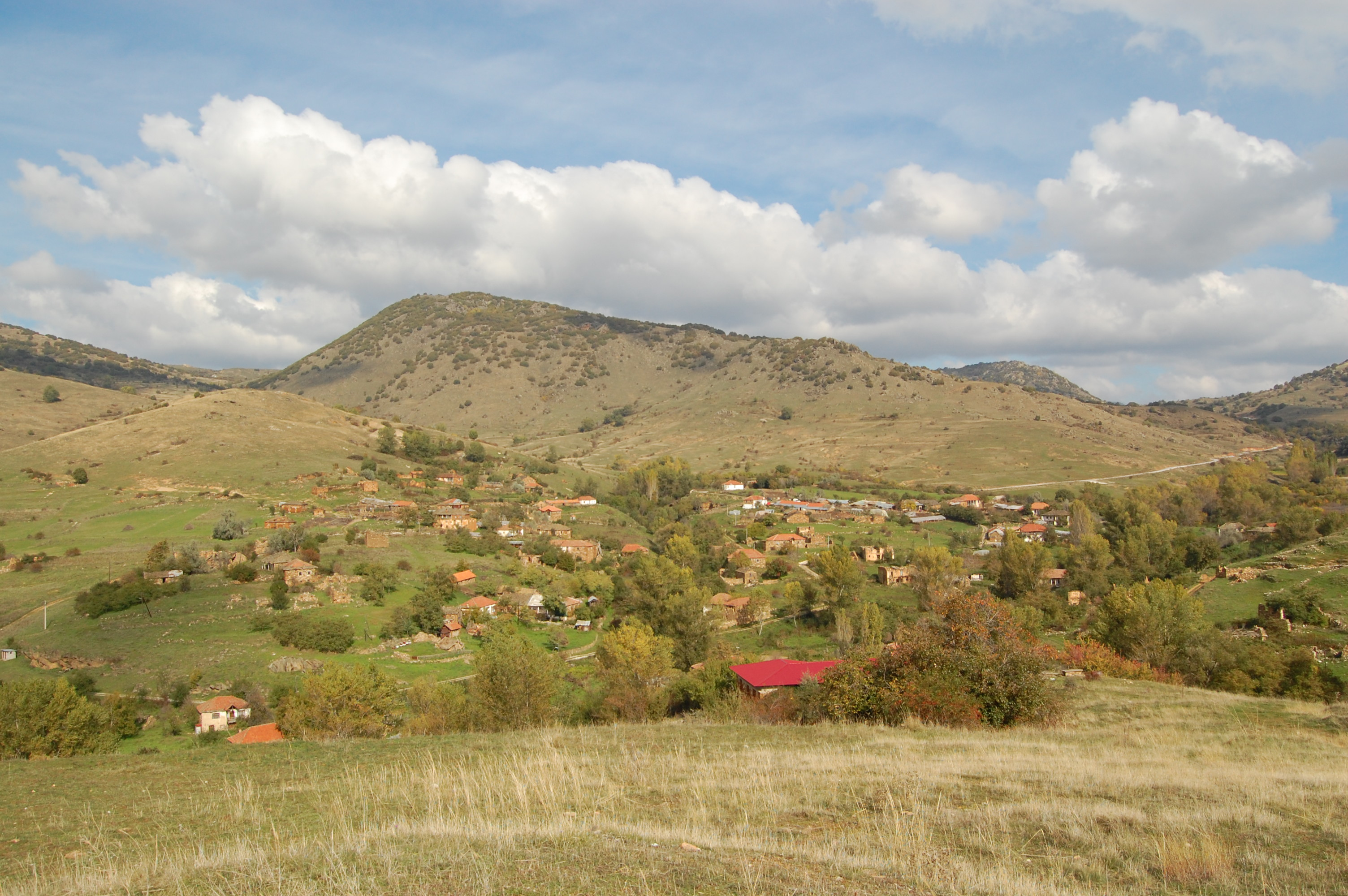 Village of Bončе, near Prilep, Macedonia